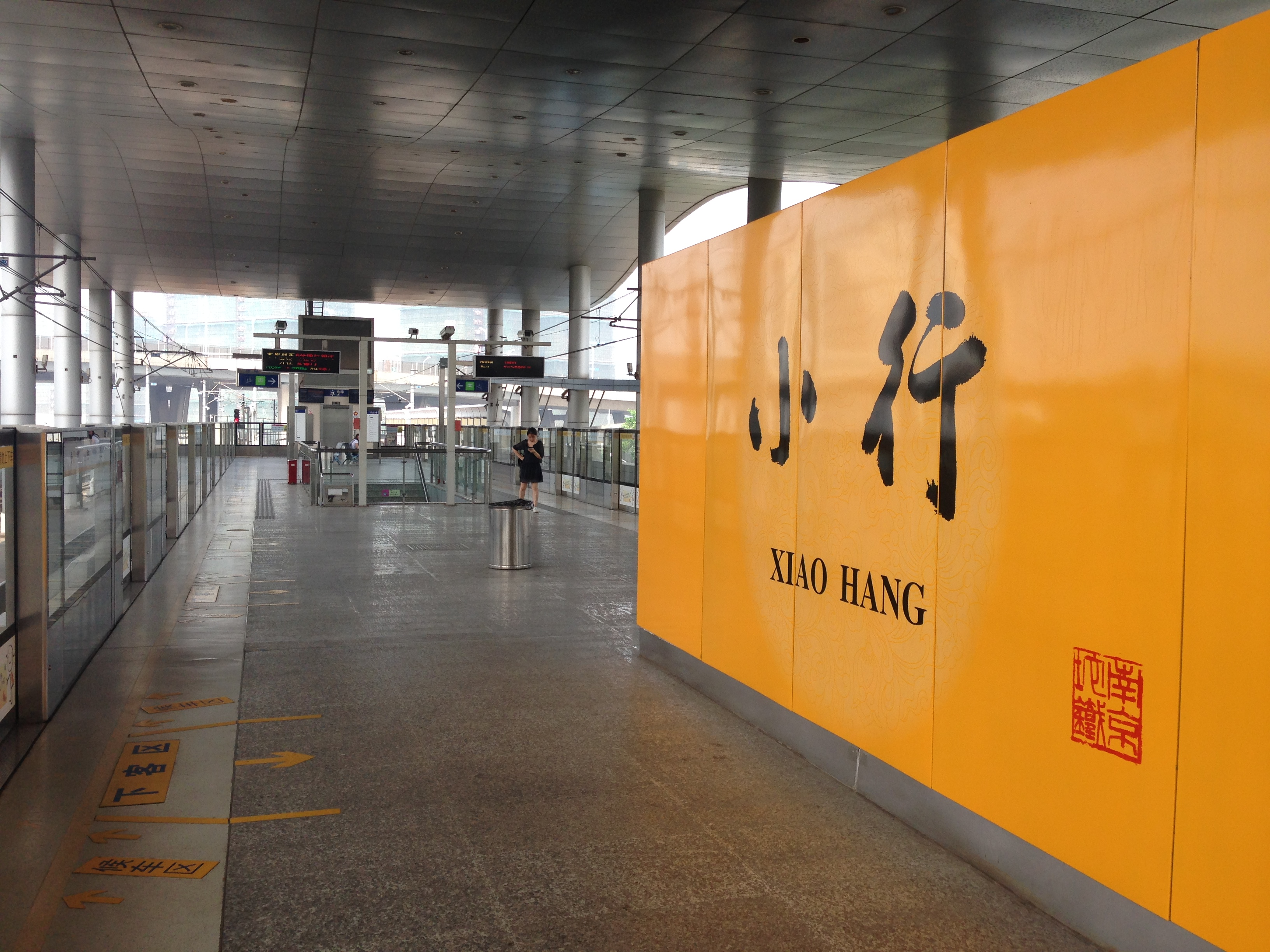 The Platform of Xiaohang Station of Line 10, Nanjing Metro